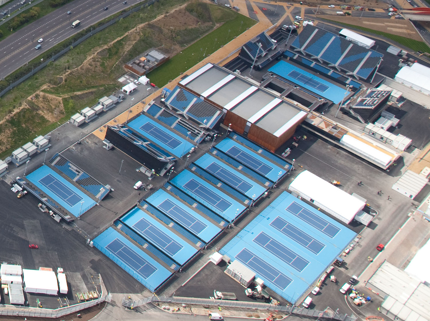 Construction of Olympic Park, London. Aerial view of the Olympic Park looking south west towards London.